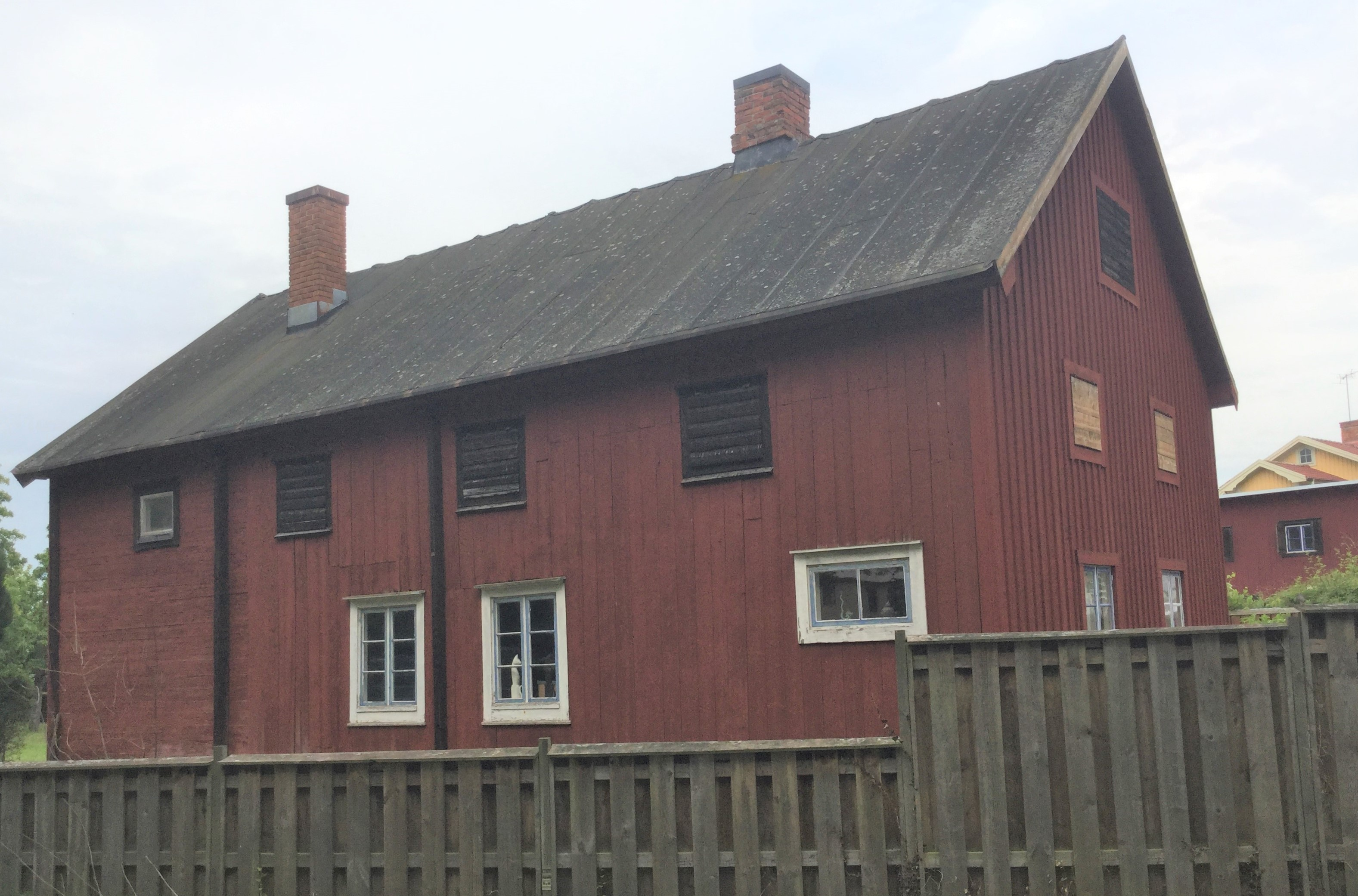 Lilla Nyborg, Borgholm, Öland. Magasinet